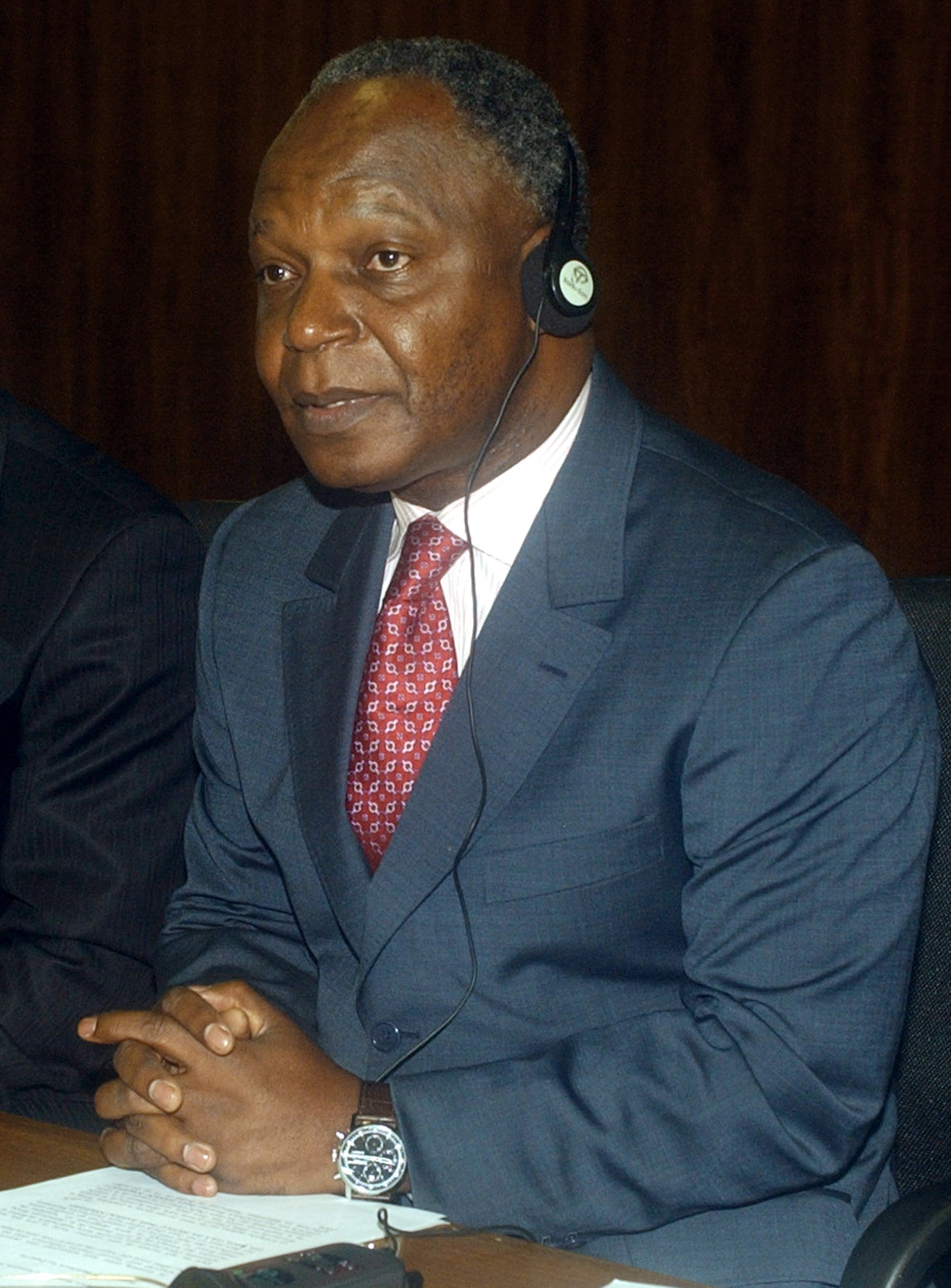 Henri Ossébi, Congolese Minister of Higher Education